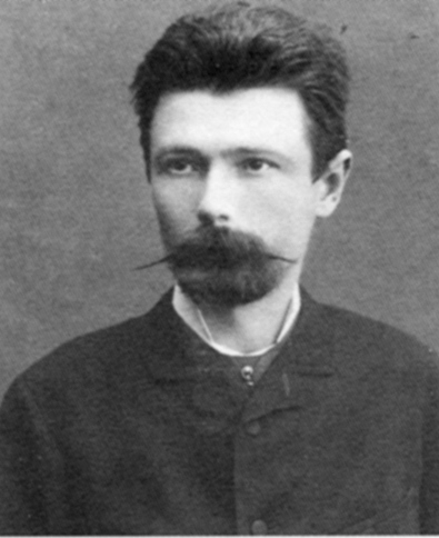 Károly Laufenauer